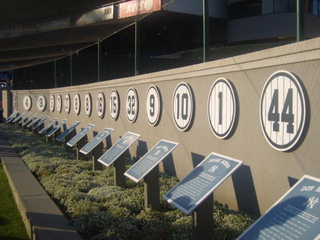 Retired numbers of the New York Yankees on display in Monument Park.